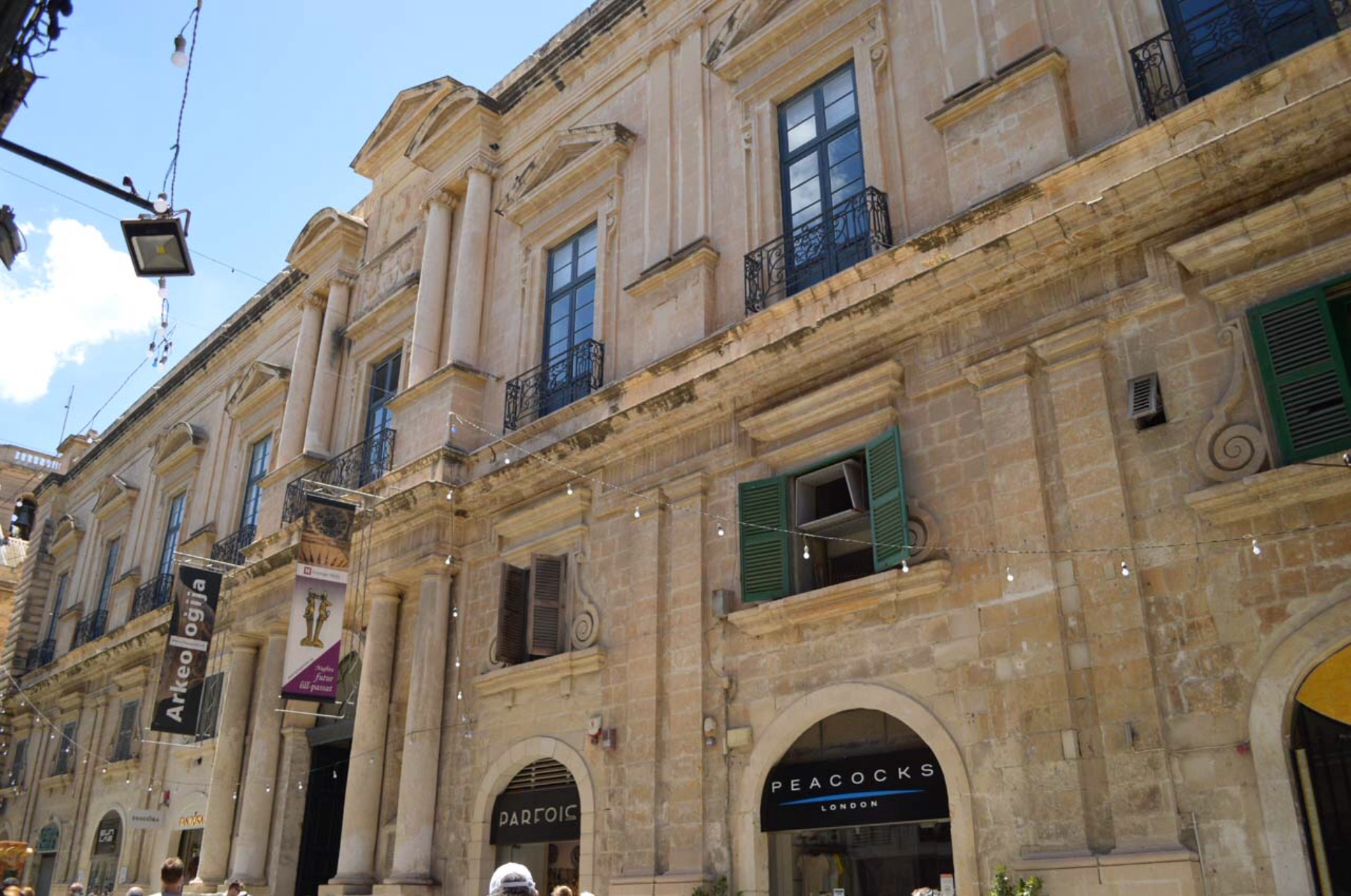 Auberge de Provence This media is about Maltese cultural property with inventory number 01135.